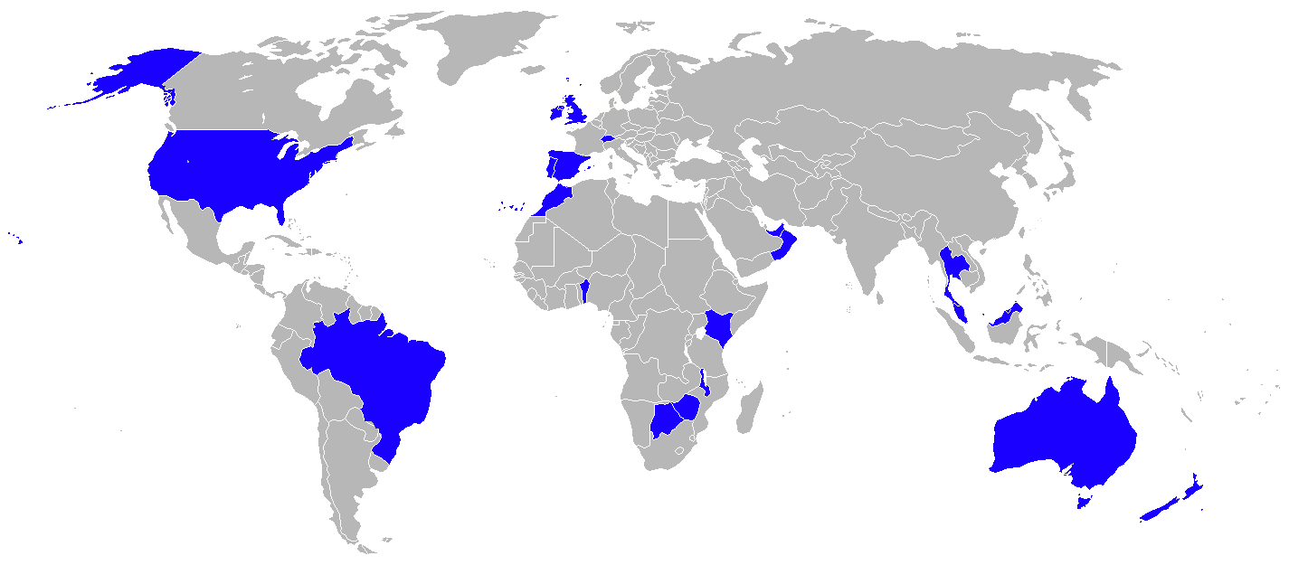 Operators of the L118 Light Gun.